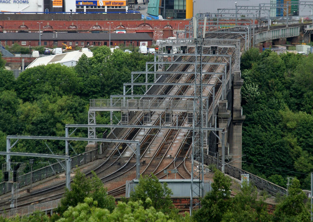 King Edward VII Bridge King Edward VII Bridge seen from Bensham. The bridge was built between 1902 and 1906.